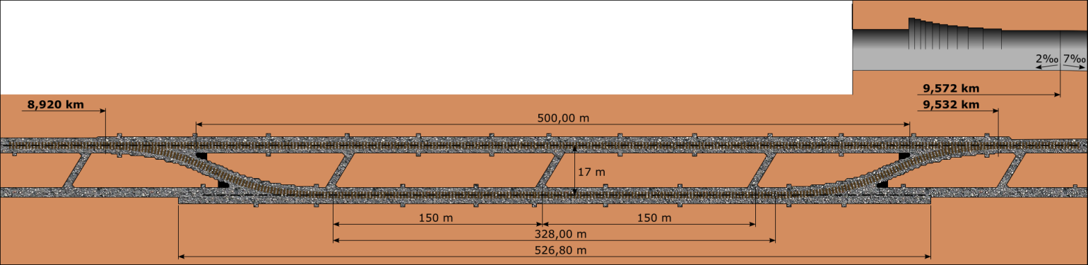 Simplon tunnel - Passing loop 1906-1922